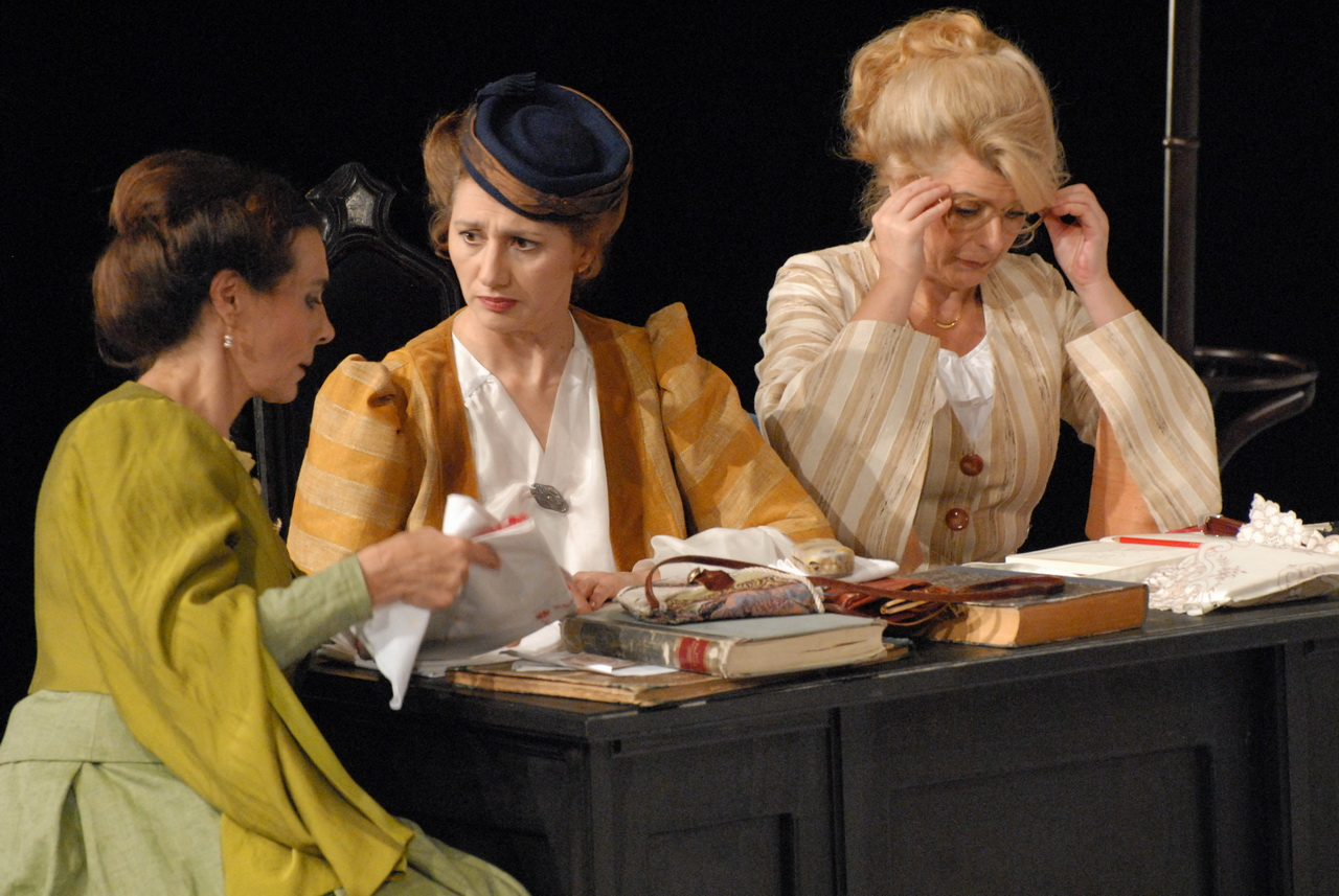 "Was There the Prince's Dinner" written and directed by Vida Ognjenović, Drama of the SNT, Novi Sad, 2008/09; Aleksandra Pleskonjić, Gordana Đurđevic Dimić, Tijana Maksimović Srpski (latinica): "Je li bilo kneževe večere", napisala i režirala Vida Ognjenović; Drama SNP-а, 2008/09; Aleksandra Pleskonjić, Gordana Đurđevic Dimić, Tijana Maksimović Српски (ћирилица): "Је ли било кнежеве вечере", написала и режирала Вида Огњеновић; Драма СНП-а, 2008/09; Александра Плескоњић, Гордана Ђурђевић Димић, Тијана Максимовић